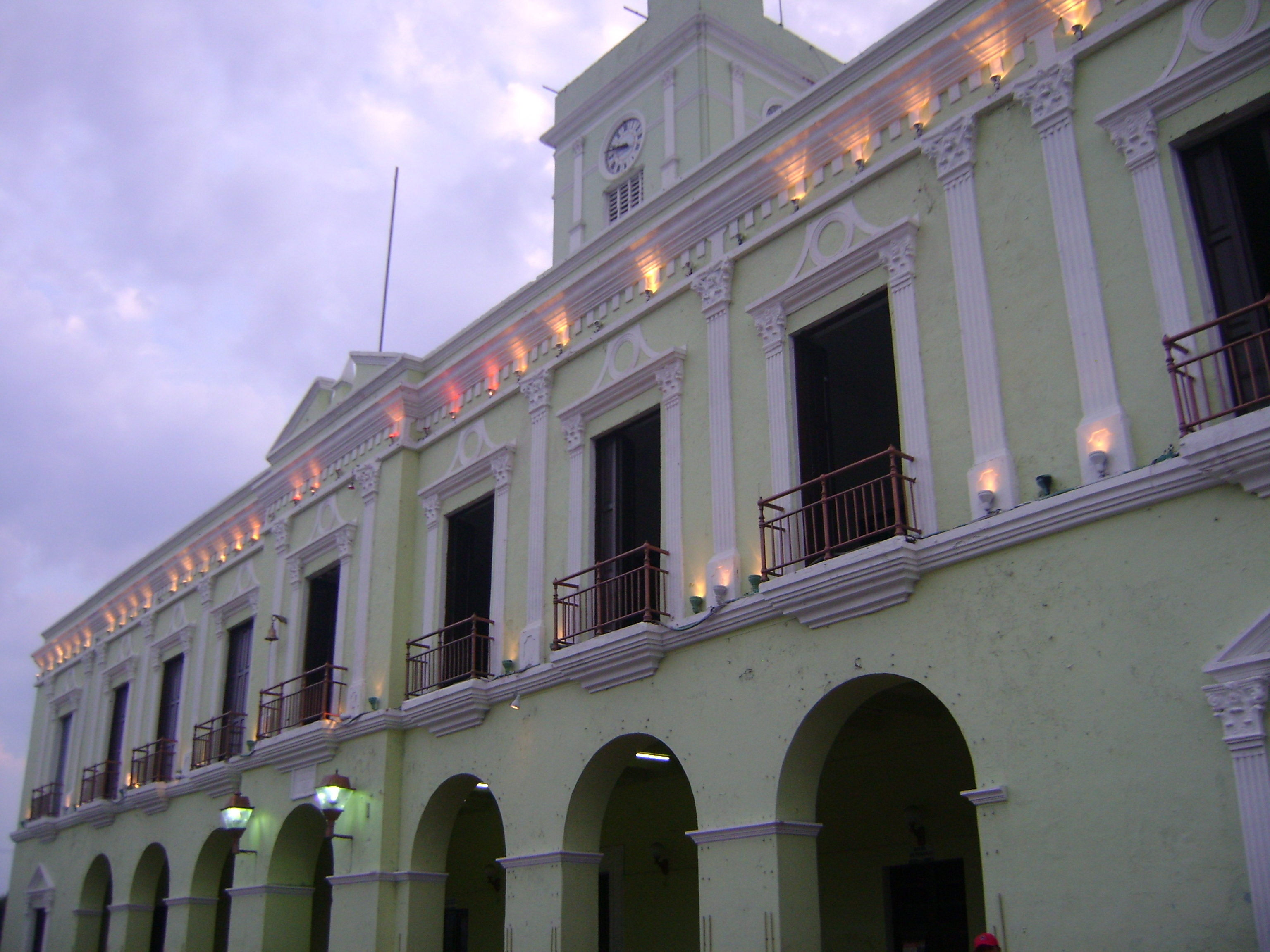 Exterior View of the Progreso's Municipal Palace, Yucatán, México